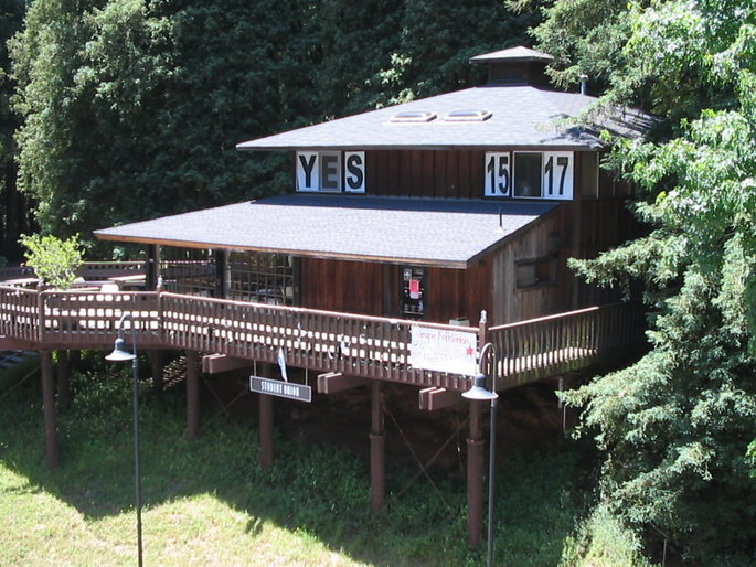 Student Union